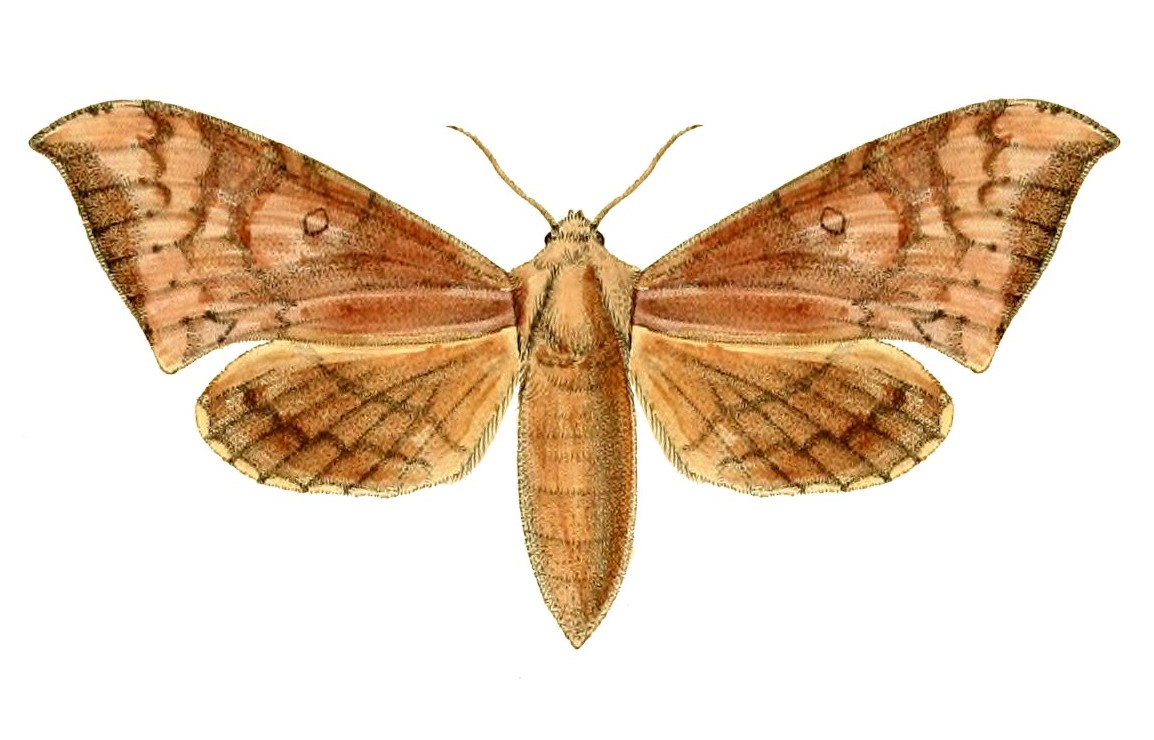 Smerinthus pechuelii = Andriasa pechuelii